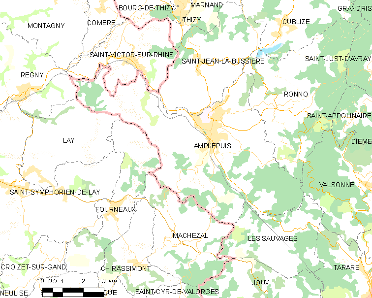 Map of French municipality